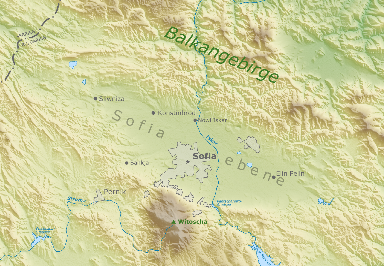 Map of the Sofia Valley (German)